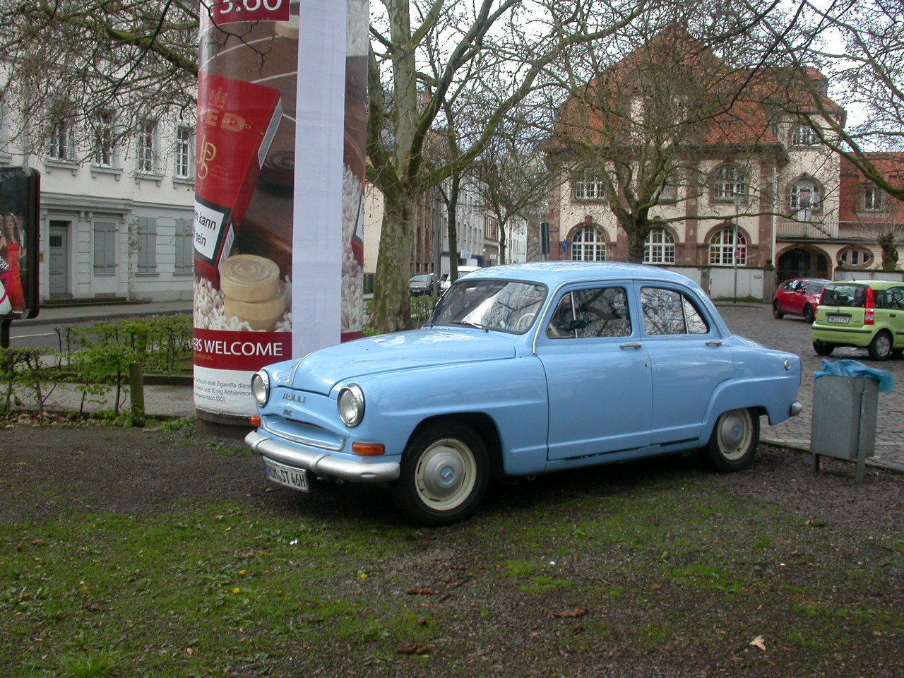 Simca Aronde 1300